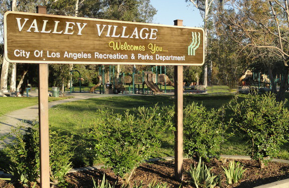 A photograph of a park in Valley Village, California.